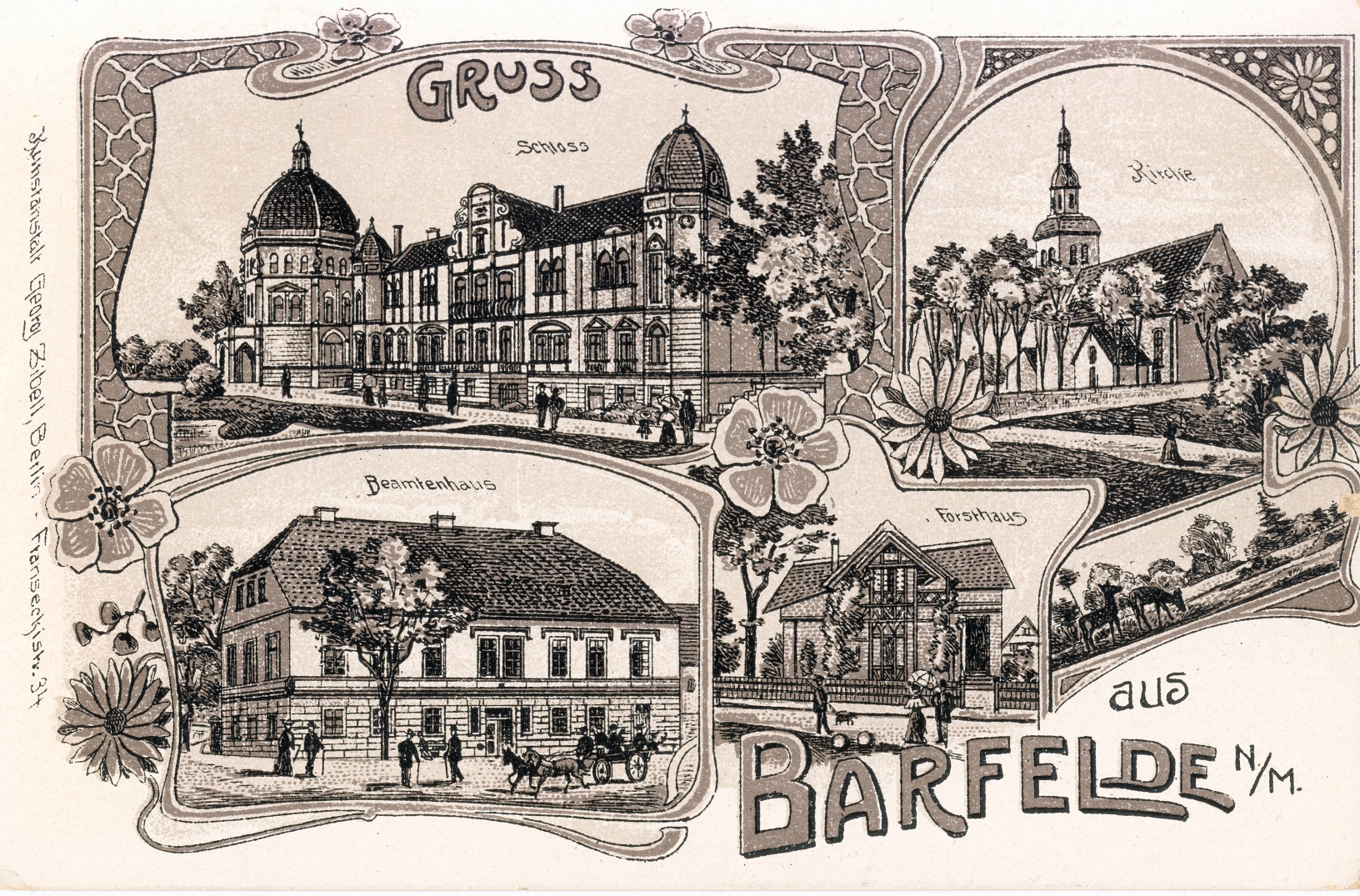 Views of Smolnica, postcard from the year 1909